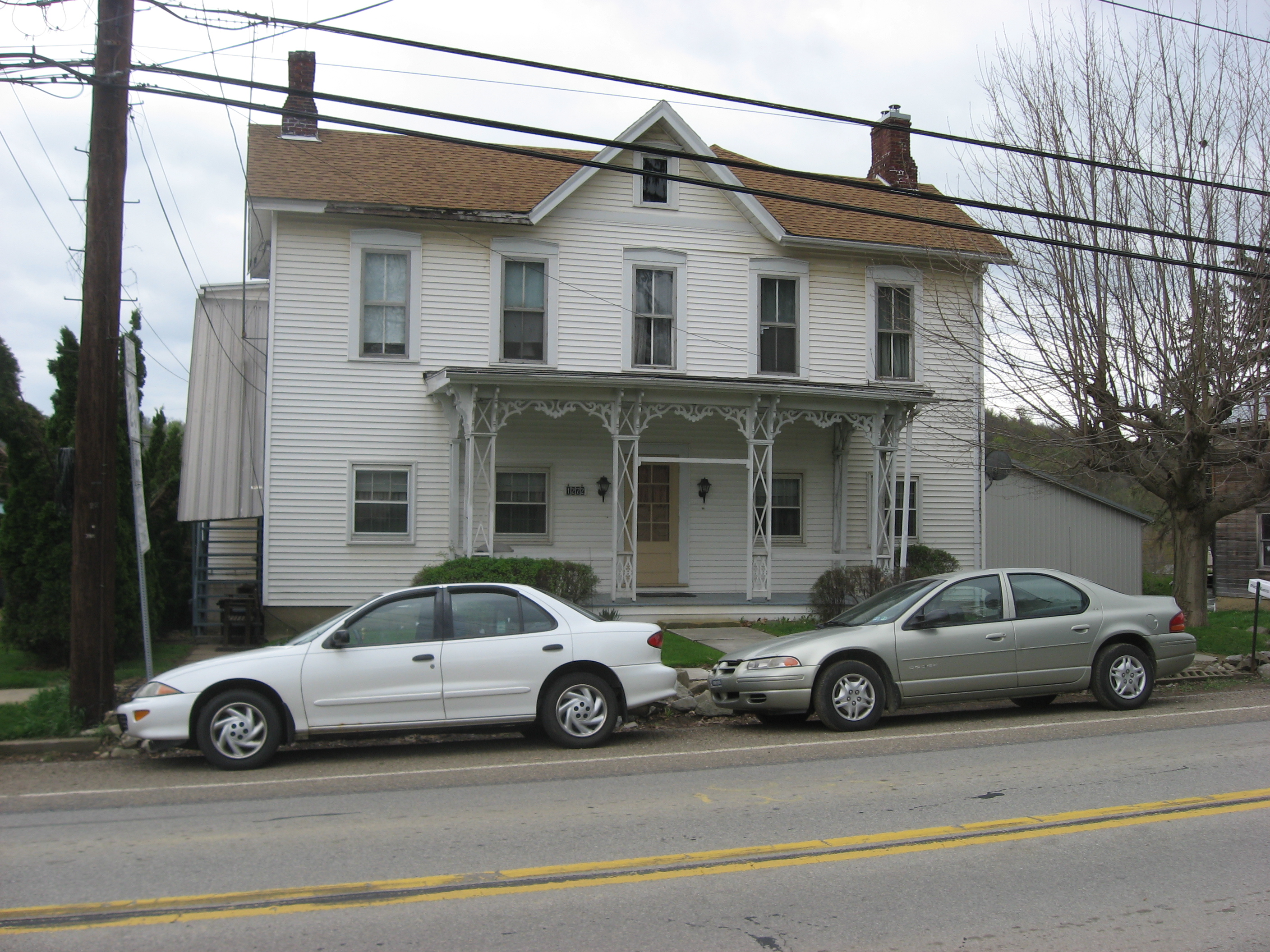 Front of the Margaret Derrow House, located along U.S. Route 40 (Main Street) in Donegal Township, Washington County, Pennsylvania, United States, just west of Claysville. Built in 1855, it is listed on the National Register of Historic Places.